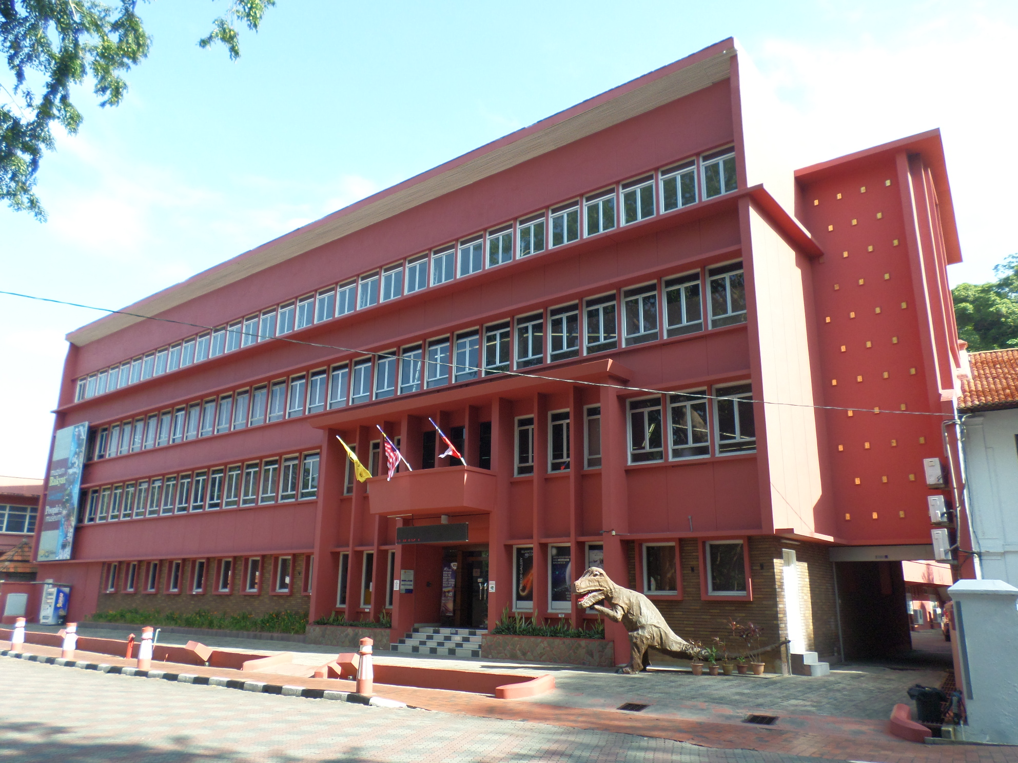 People's Museum/Kite Museum/Beauty Museum, Malacca, MalaysiaBahasa Melayu: Muzium Rakyat/Muzium Kecantikan/Muzium Layang-Layang, Melaka, Malaysia